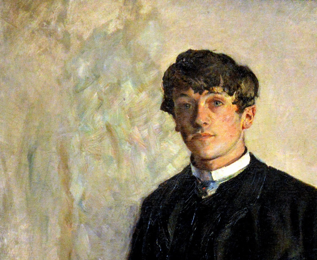 Norwegian painter, Kalle Lochen, by Eilif Petersson